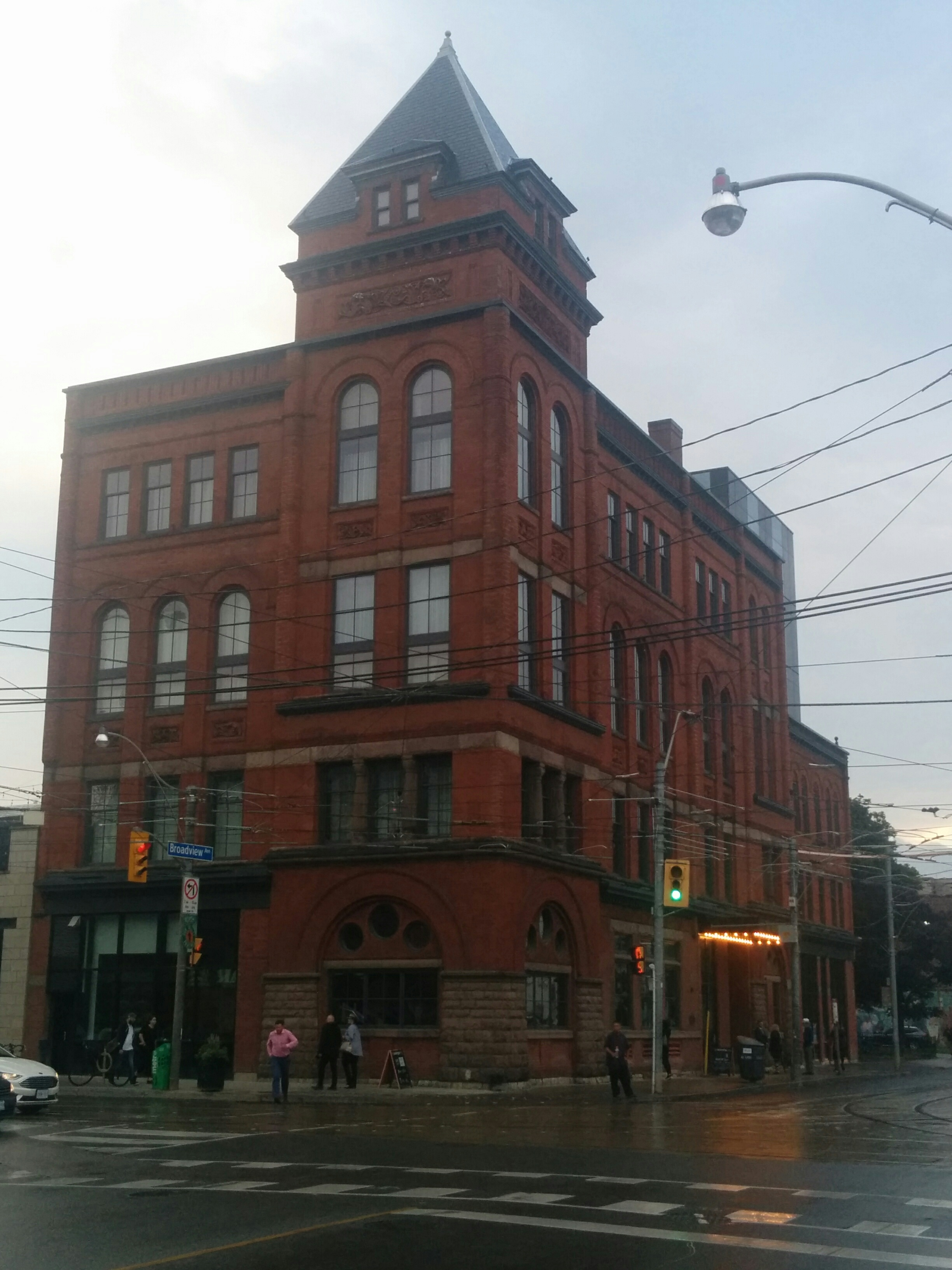 View of Broadview Hotel in 2017 from south-east